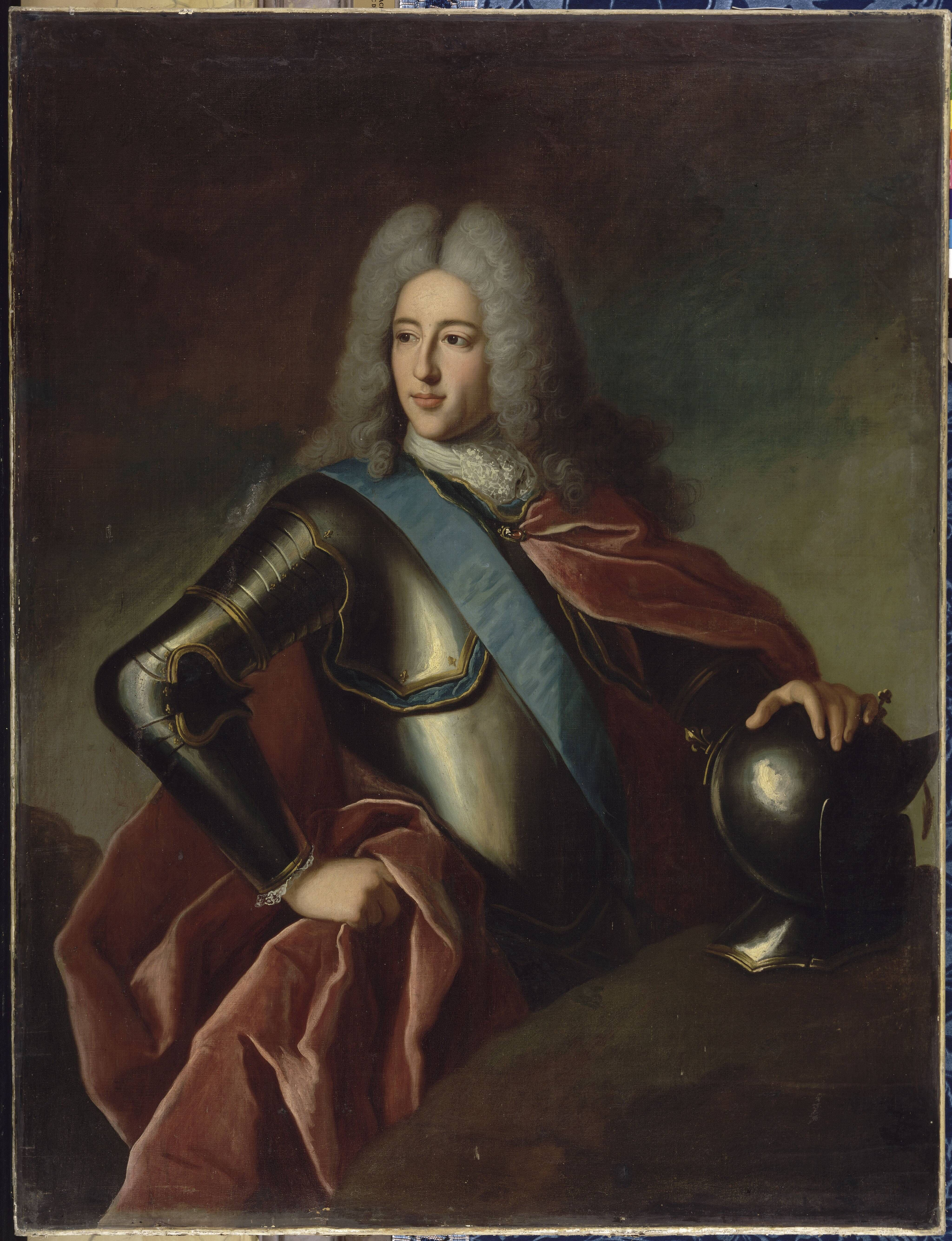 Louis Henri de Bourbon, Prince of Condé, Duke of Bourbon (1692-1740) was prime minister of France during the reign of Louis XV.